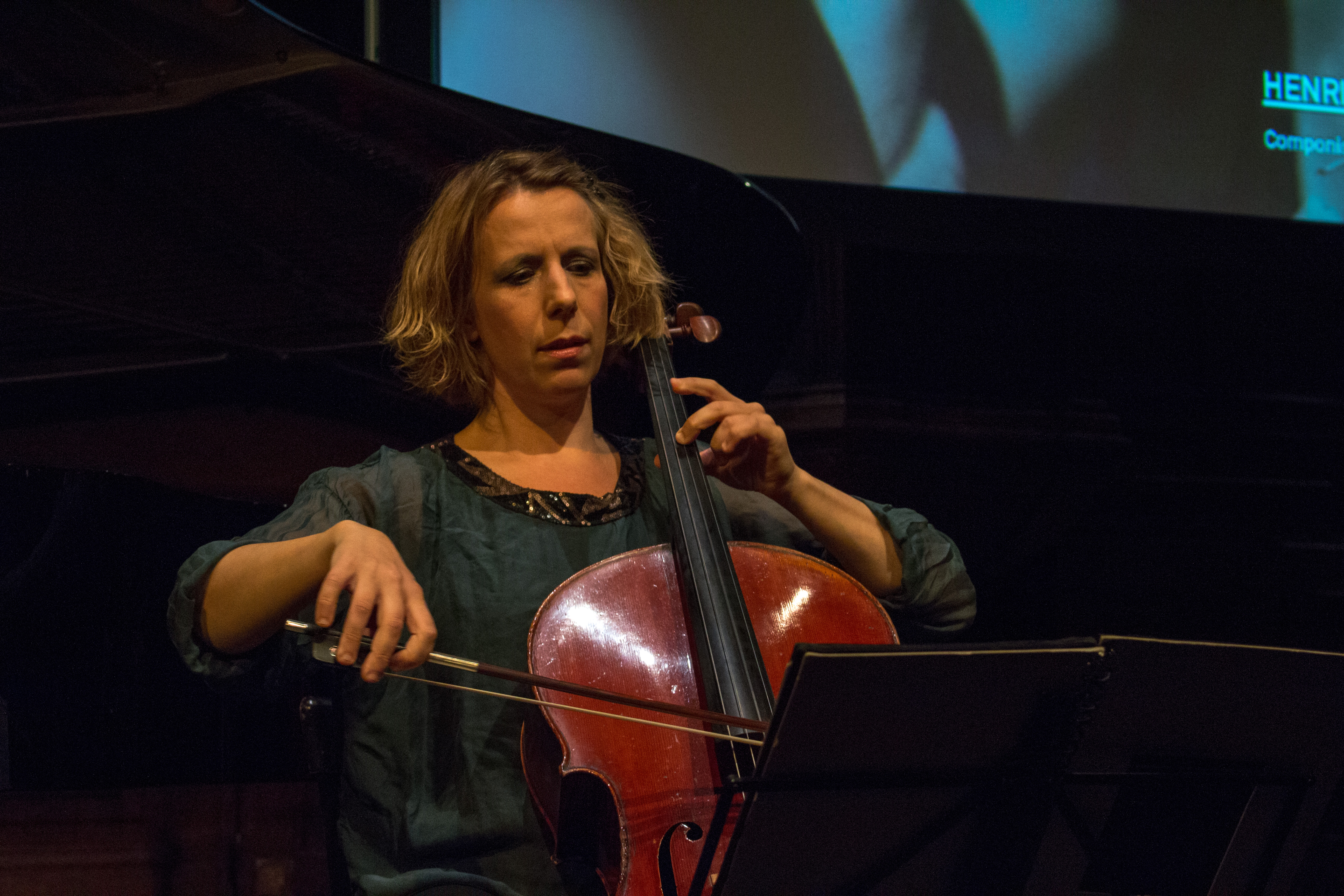 Doris Hochscheid at the fundraising party for the second volume of the book "1001 vrouwen"